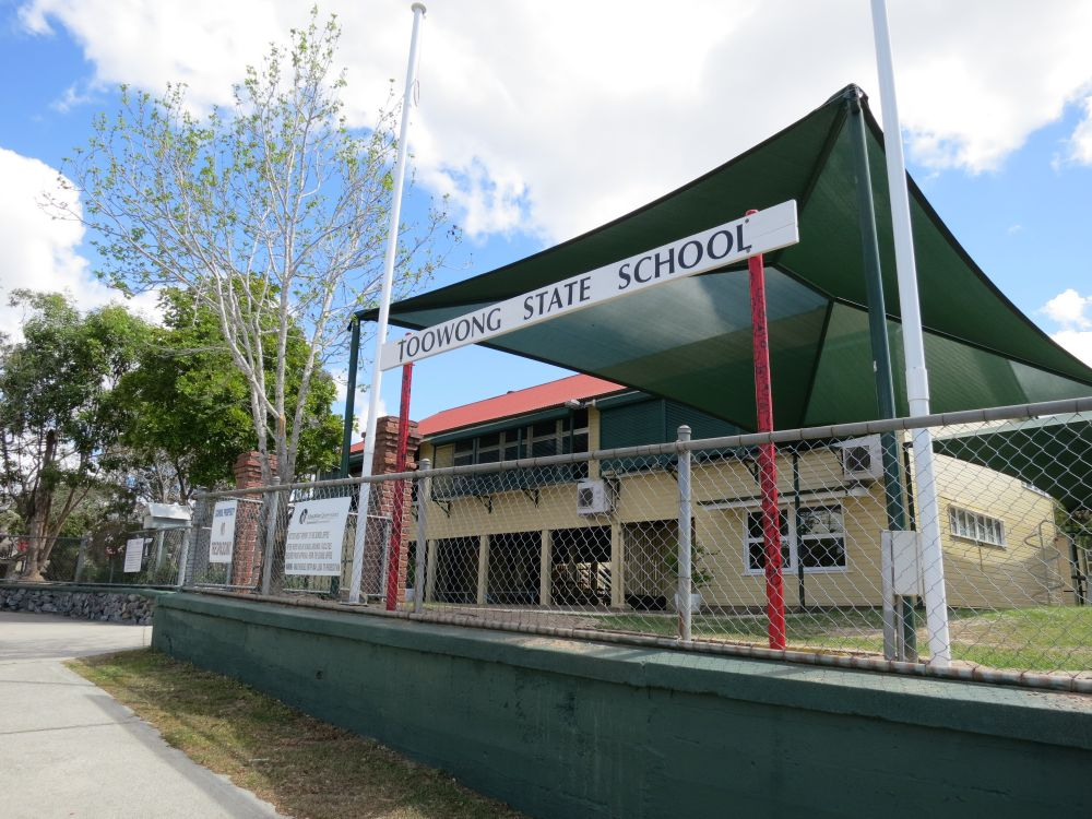 Concrete retaining walls at entrance from St Osyth Street, 2014